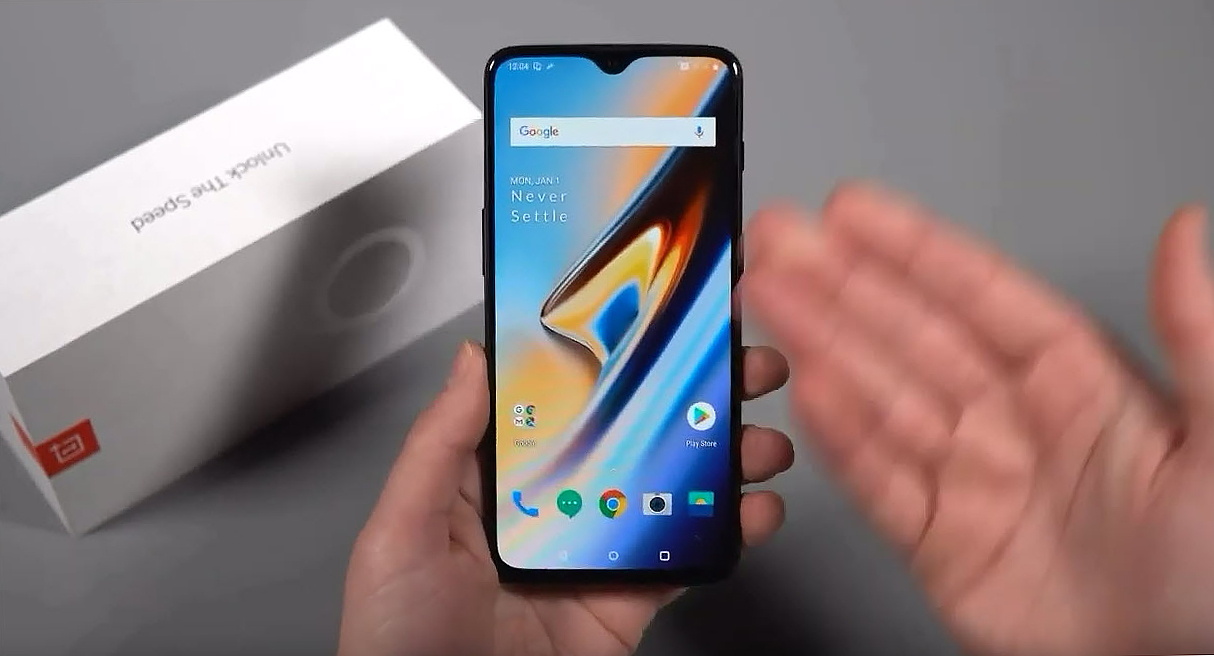 OnePlus 6T Unboxing